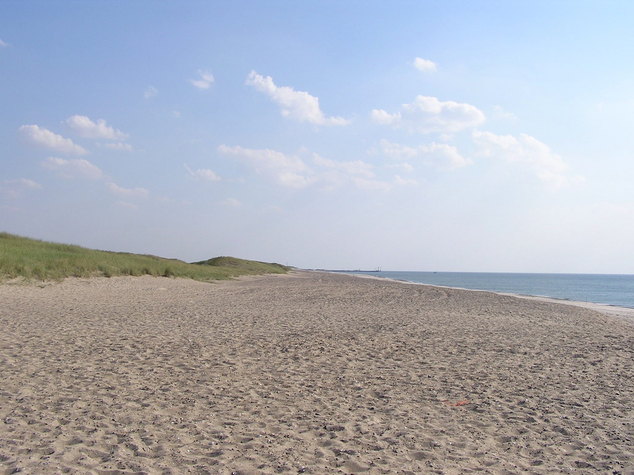 The beach near Thorsminde, Ringkjøbing County. In the distance the harbour can be seen.